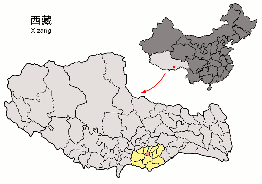 Location of Qonggyai County (pink) and Shannan Prefecture (yellow) within Tibet (Xizang) autonomous region of China